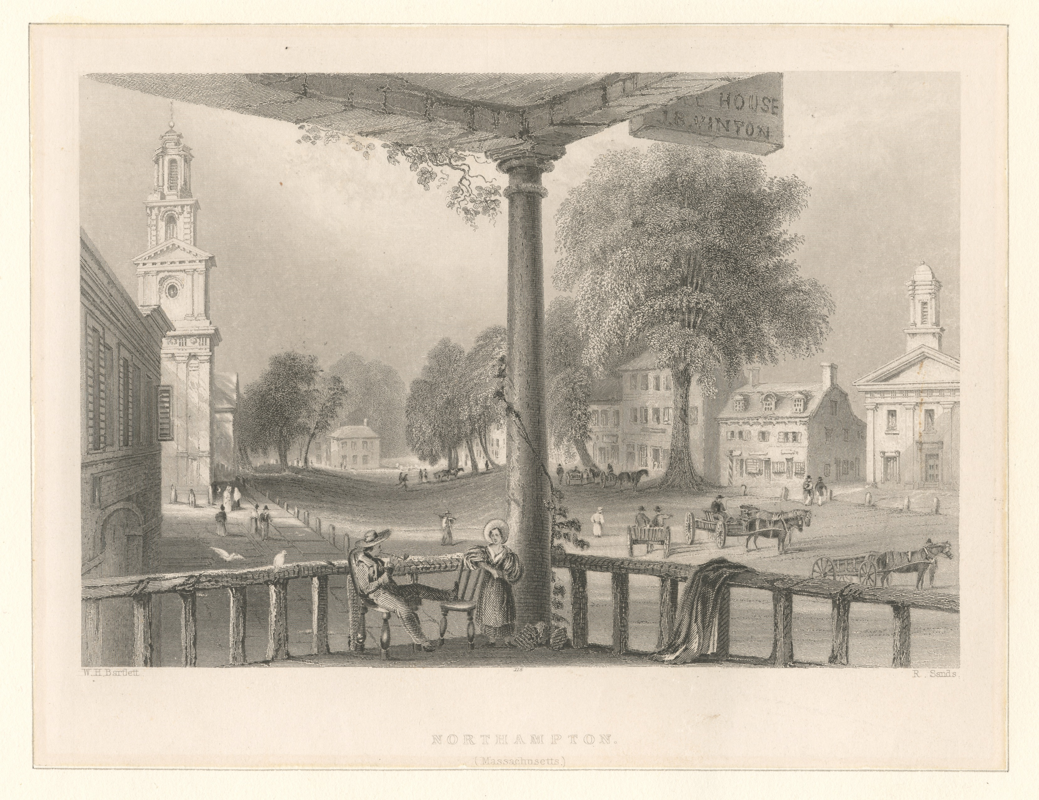 Printmakers include P. Canot, H.B. Hall, S.V. Hunt, J.B. Longacre, J.M. Probst and Paul Sandby. Title from Calendar of the Emmet Collection. EM8501 Statement of responsibility : R. Sands